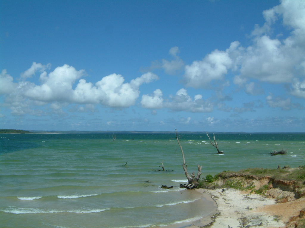 Inharrime fresh water lake, Mozambique.